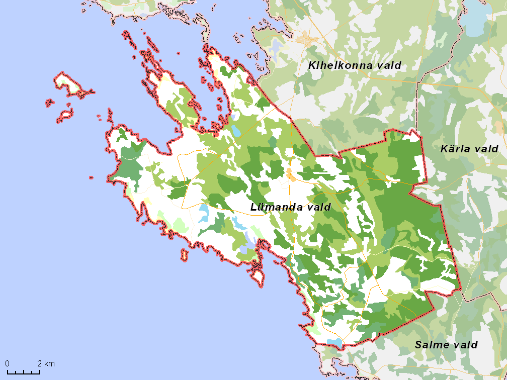 Map of municipality in Estonia